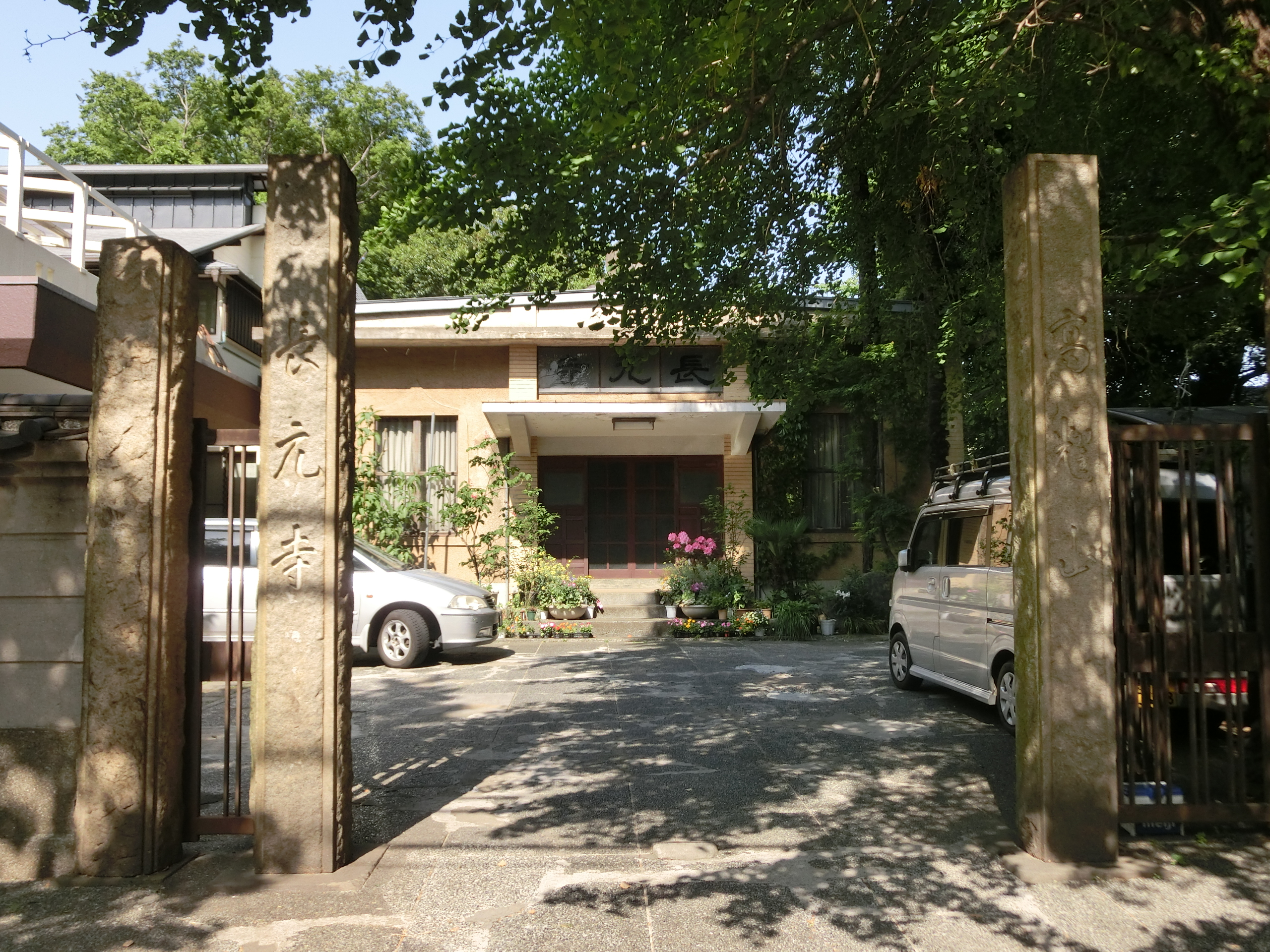 Chogen-ji (Bunkyo)